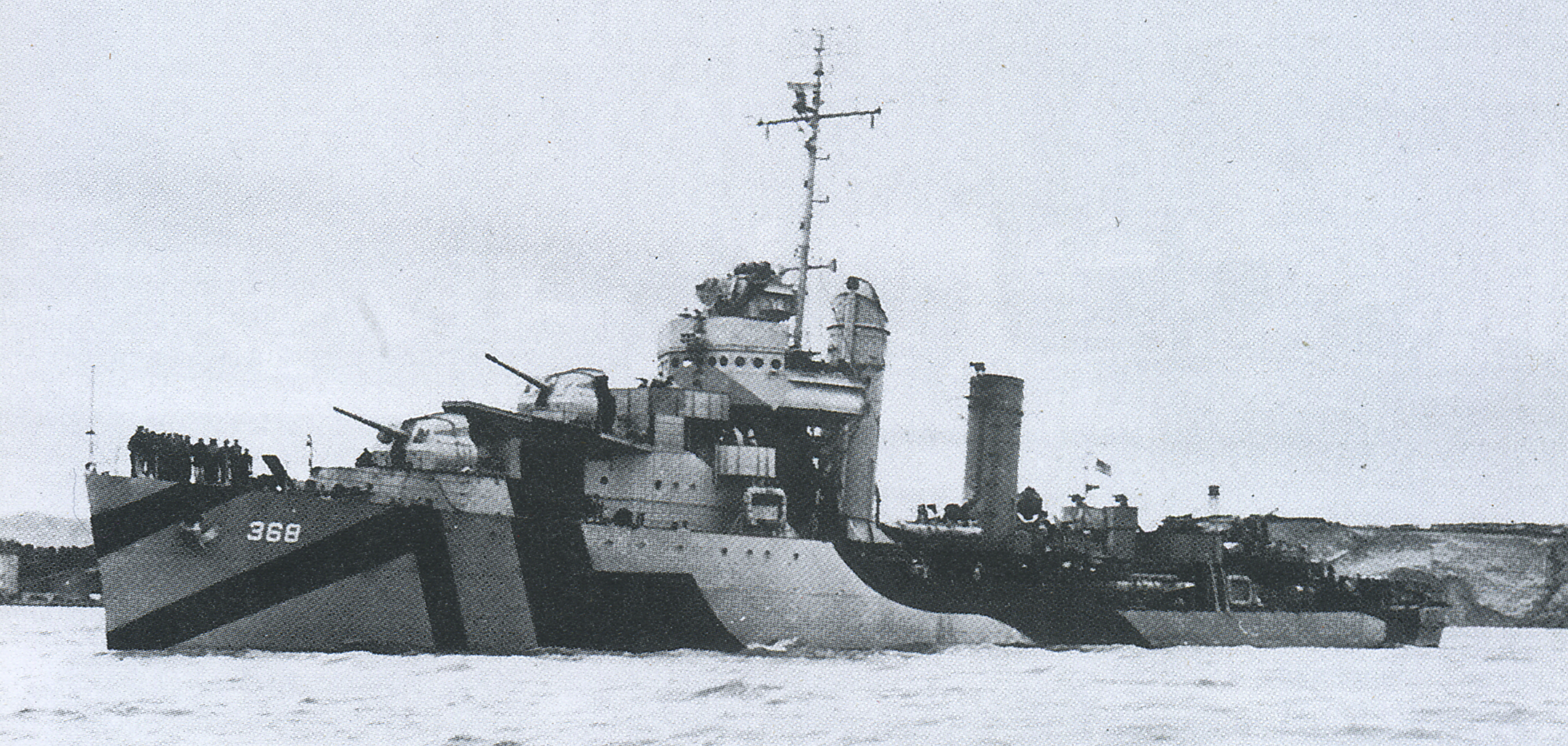 Destroyer USS Flusser DD_368 as seen in June 1944